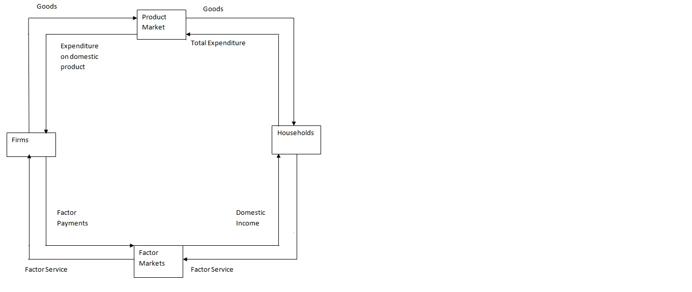 it describes about how income is distributed in the ecnomy